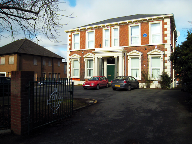 Irish Football Association, Belfast Headquarters of the Irish Football Association at 20 Windsor Avenue, Belfast. The Irish Football Association (IFA) is the organising body for football in Northern Ireland, and had historically been the governing body for the whole of the island. Founded in the Queens Hotel, Belfast on the 18th November 1880, the Irish Football Association is the fourth oldest governing body in the world (the three older are the English, Scottish and Welsh football associations). When Ireland was split by partition in 1921 the IFA remained in charge of football in the new Northern Ireland while the Football Association of Ireland (FAI) is the counterpart association for (The Republic of) Ireland. and for more information on the IFA. The IFA has been based here since 1960. Previously the association had been housed at premises on Waring Street and then Wellington Place. The building itself has another important historical link - Thomas Andrews, chief designer of the ill-fated ship 'Titanic', lived here and there is a blue plaque on the wall commemorating him (a passenger on the Titanic's maiden voyage he died when she sank). The Titanic Society still meet here in the shadow of the beautiful staircase and ornate stained glass window which, legend has it, provided Andrews inspiration for the design of the ship.